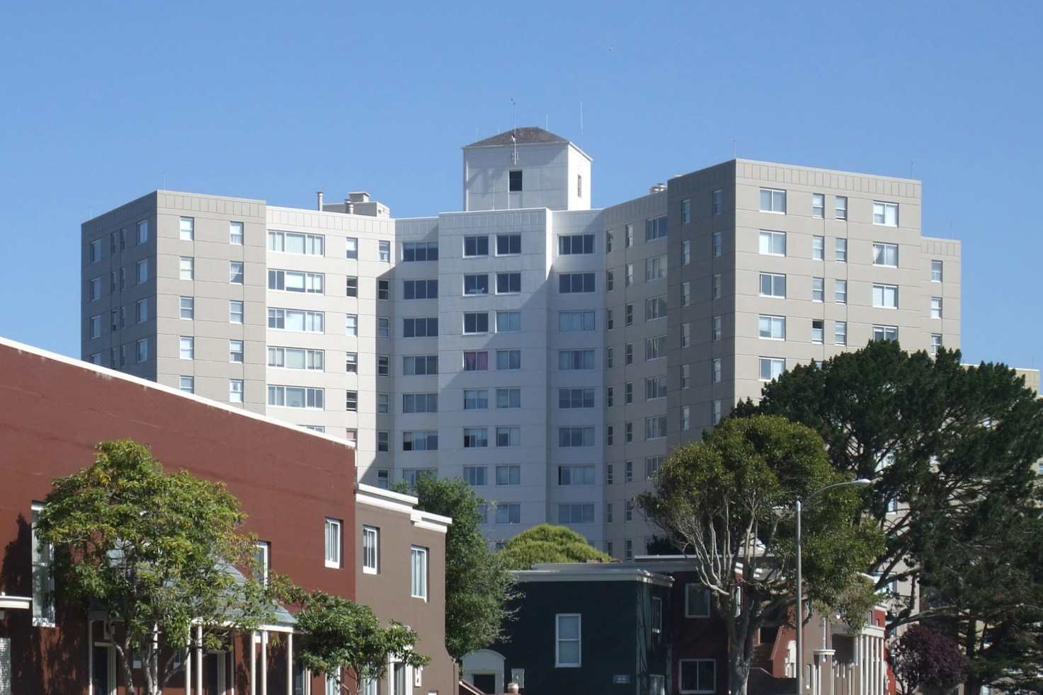 One of the several high rise apartment complexes in the Parkmerced neighborhood in San Francisco.